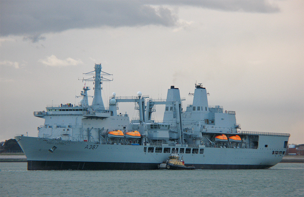 The Royal Fleet Auxiliary vessel Fort Victoria photographed at Portsmouth, UK, in October 2008. Image uploaded by me User:George.Hutchinson from a photograph taken by and supplied by Brian Burnell. Wikipedia editors are reminded that the copyright remains with the photographer, and that the terms of the Creative Commons licence; that allow editors to reuse this image apply to Wikipedia editors also, as they do to other re-users of this image. Breaches of the licence terms are not only unlawful, but are also antisocial, in that breaches discourage photographers from making their images freely available to everyone without payment. Wikipedia re-users are also reminded of the license terms that derivatives of this image should not imply that the adaptation is endorsed or approved by the author or copyright holder. Neither should derivatives be presented as the creation of the author or copyright holder, while clearly stating that the adaptation is a derivative of the original. Attribution online should be in this format Brian Burnell. On the printed page, a simpler form is acceptable - example: "Image: Brian Burnell". Non-Wikipedia users are requested to advise Brian Burnell of its use other than on Wikipedia.